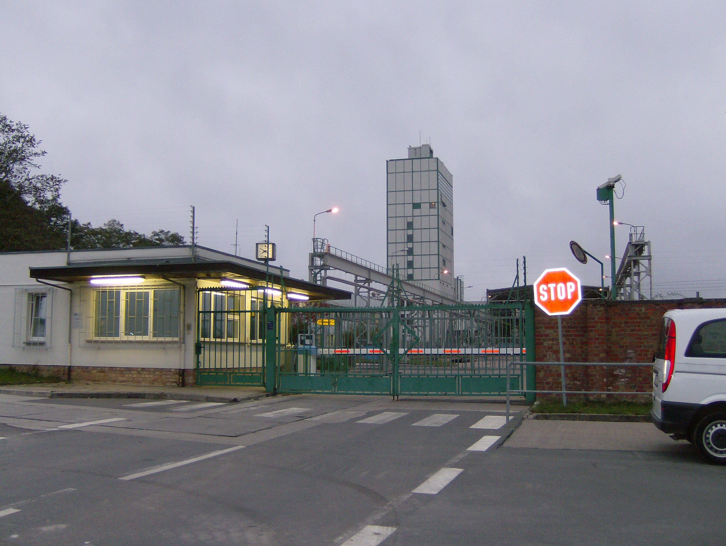 Main entrance to the nuclear waste facility in Morsleben